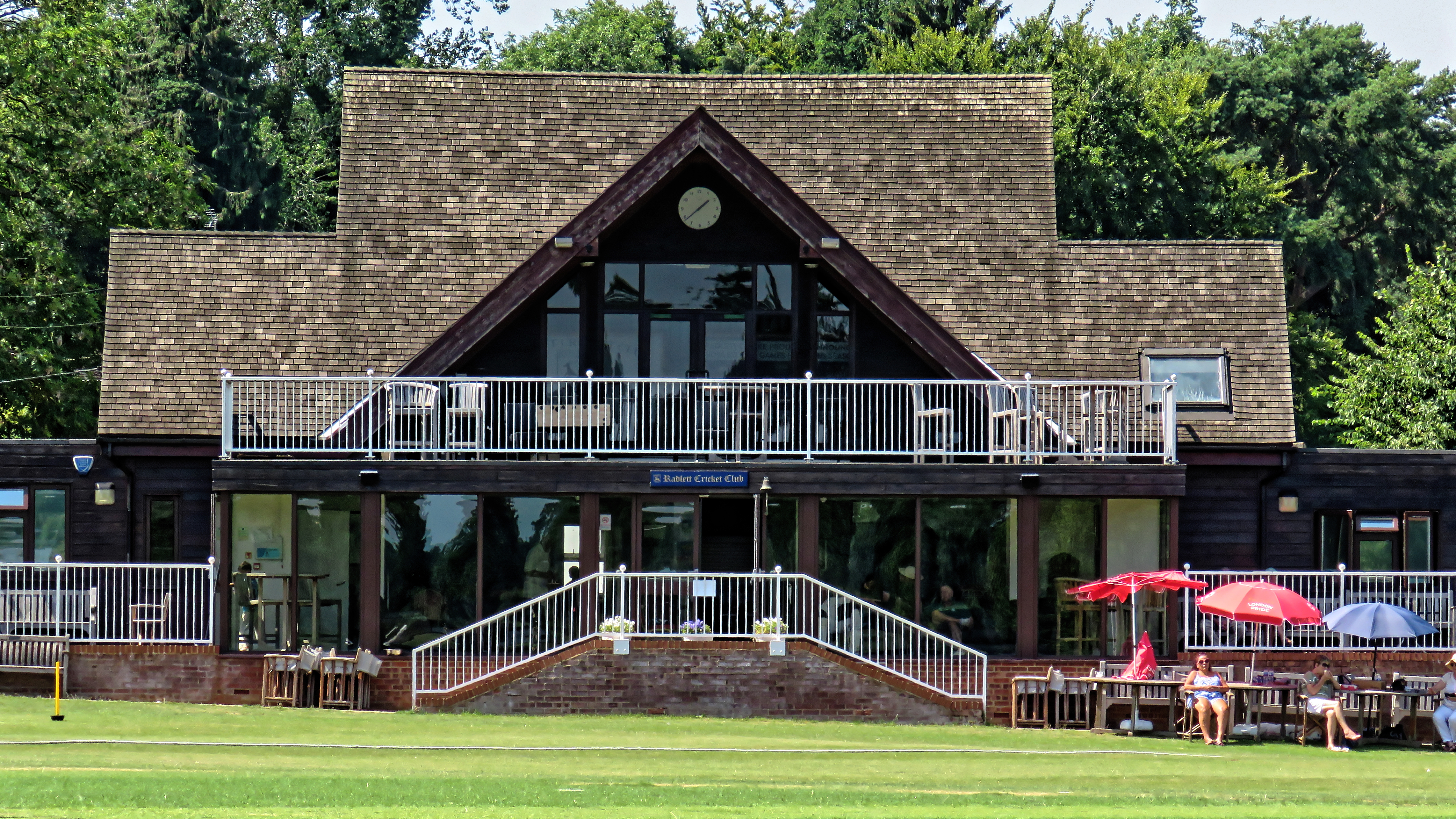 Radlett Cricket Club pavilion during a July 2019 Tuesday public 45-over Minor Counties cricket match between Hertfordshire County Cricket Club and Berkshire County Cricket Club, at the Radlett Cricket Club ground in Hertfordshire, England. The game was part of the elimination stage for the 2019 National 60+ / 70+ County Cricket Championship between Hertfordshire 50+ - 60+ 1st XI[1] and Berkshire Cricket Board 60+ 1st XI.Mobile device view: Wikimedia (as at July 2019) makes it difficult to immediately view photo groups related to this image. To see its most relevant allied photos, click on Radlett Cricket Club, and this uploader's Cricket photos. You can add a beta click-through 'categories' button to the very bottom of photo-pages you view by going to settings... three-bar icon top left.Desktop view: Wikimedia (as at July 2019) makes it difficult to immediately view the helpful category links where you can find images related to this one in a variety of ways; for these go to the very bottom of the page.This image is one of a series of date and/or subject allied consecutive photographs kept in progression or location by file name number and/or time marking.Camera: Canon PowerShot SX60 HSSoftware: File lens-corrected, optimized, perhaps cropped, with DxO PhotoLab 2 Elite, and likely further optimized with Adobe Photoshop CS2.